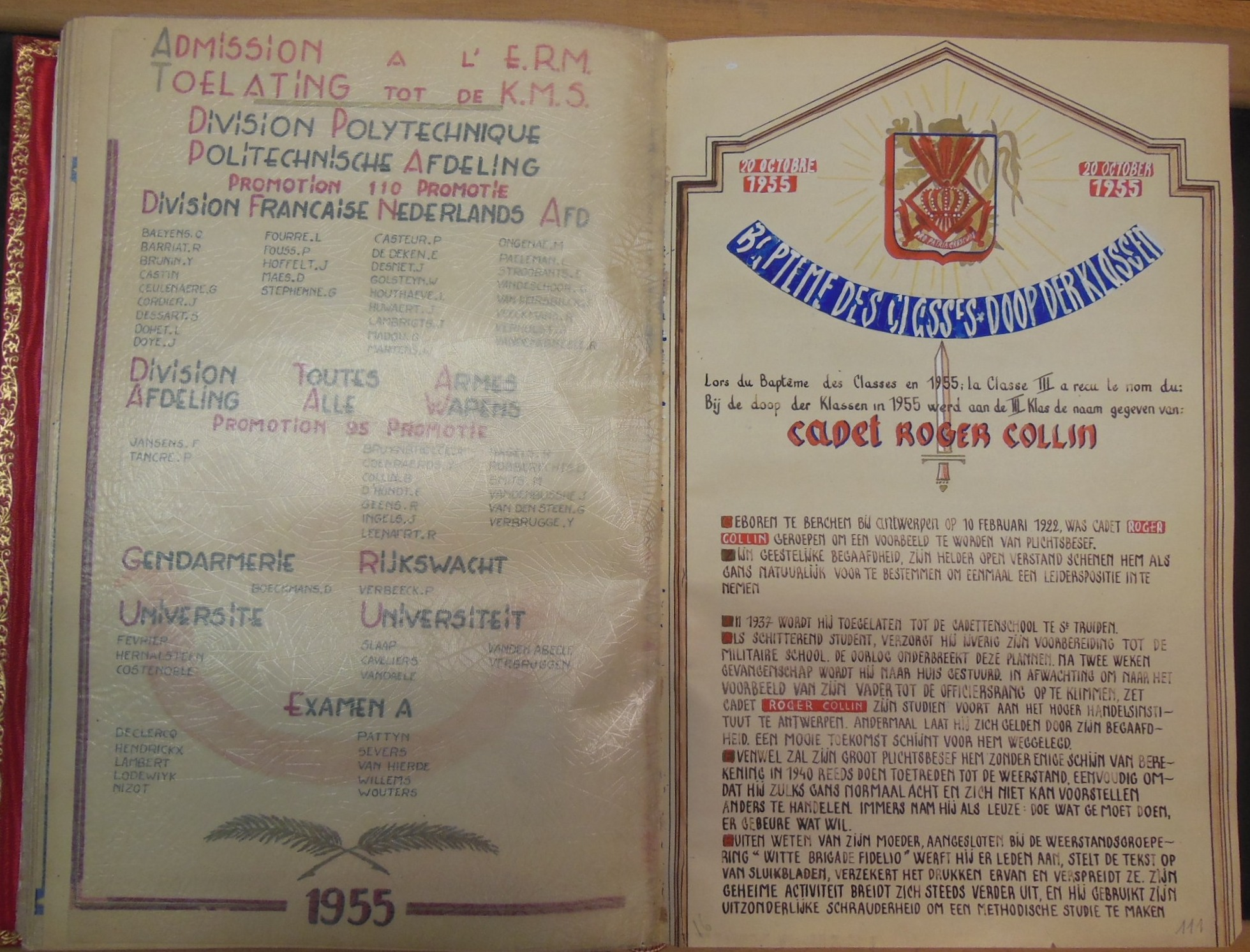 On the left page the names of the cadets who passed on for the Military School or university education; on the right page the opening of the department Lier in 1955